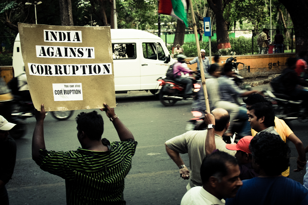 India Against Corruption - Protestors in Pune,India.